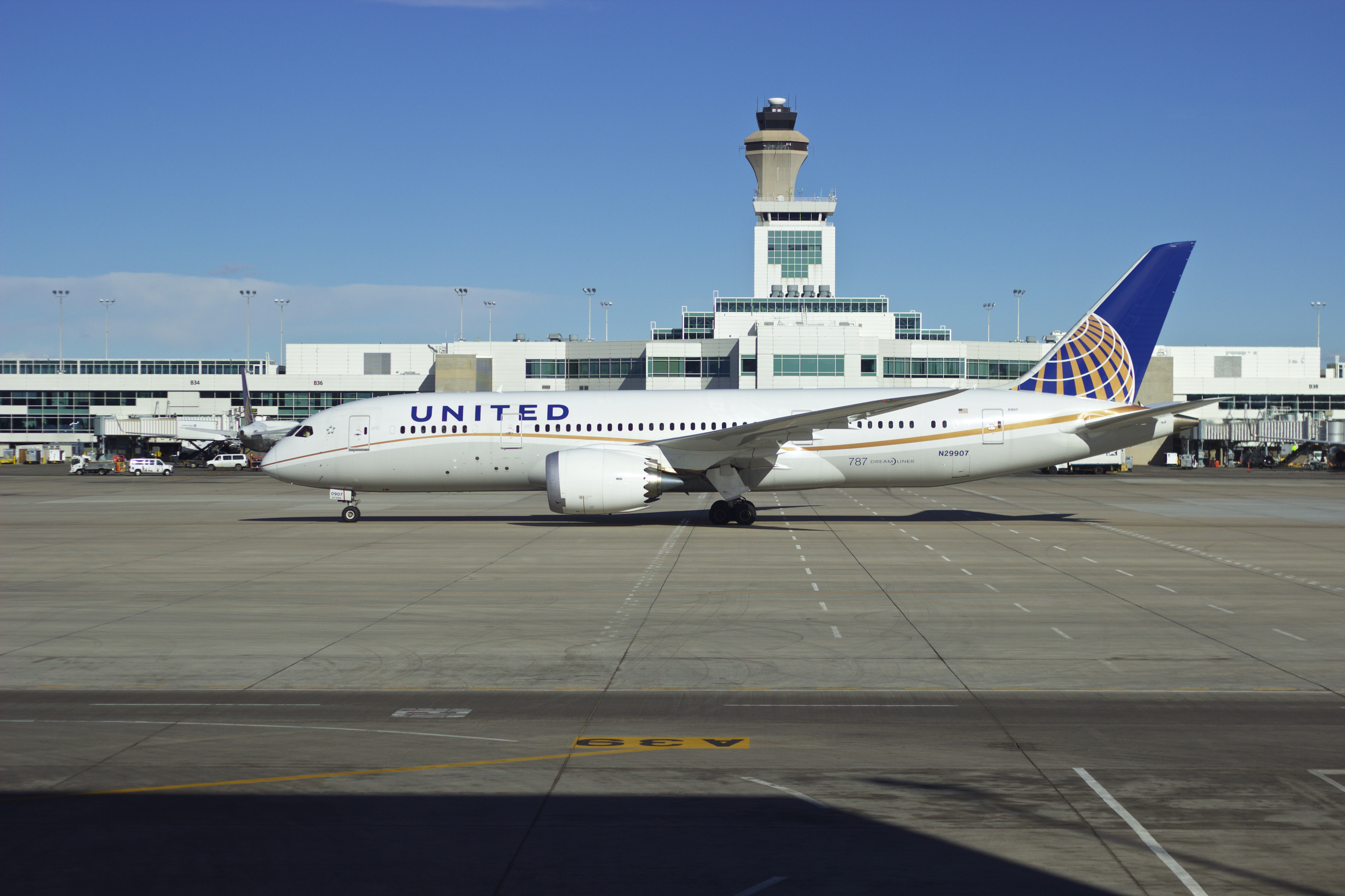 A United 787 taxiing at Denver International Airport.